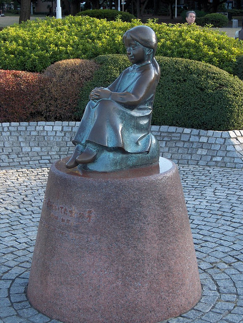 this statue is apparantly famous: "little girl with red shoes."